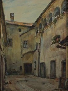 Bamberger Scheibbs Innenhof